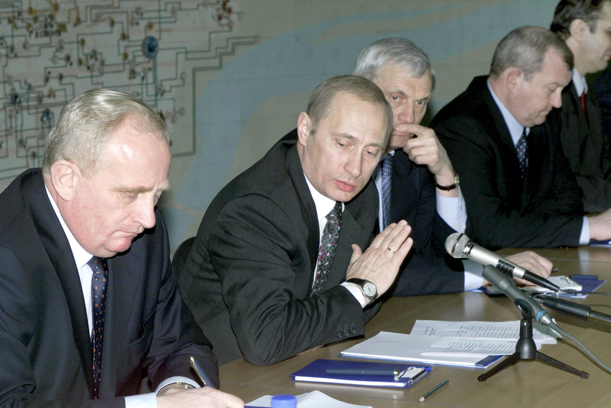 GORELEKTROSET, TOMSK. President Vladimir Putin during a meeting on municipal service development with Tomsk Governor Viktor Kress, left, Leonid Drachevsky, Presidential Envoy to the Siberian Federal District, and Konstantin Pulikovsky, Presidential Envoy to the Far Eastern Federal District, right.